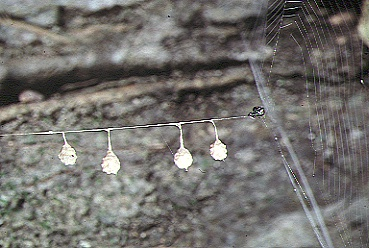 web of unidentified Theridiosomatidae from Mexico.